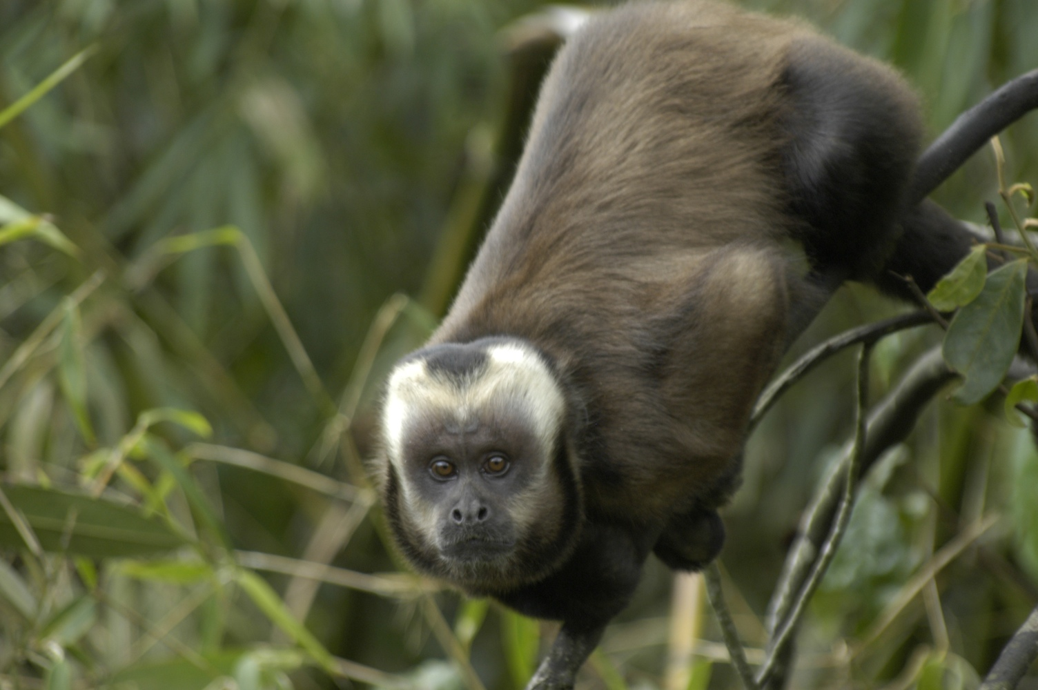 Large-headed capuchin (Sapajus macrocephalus) in Cock-of-the-rock Lodge, Manu Rd., Peru.